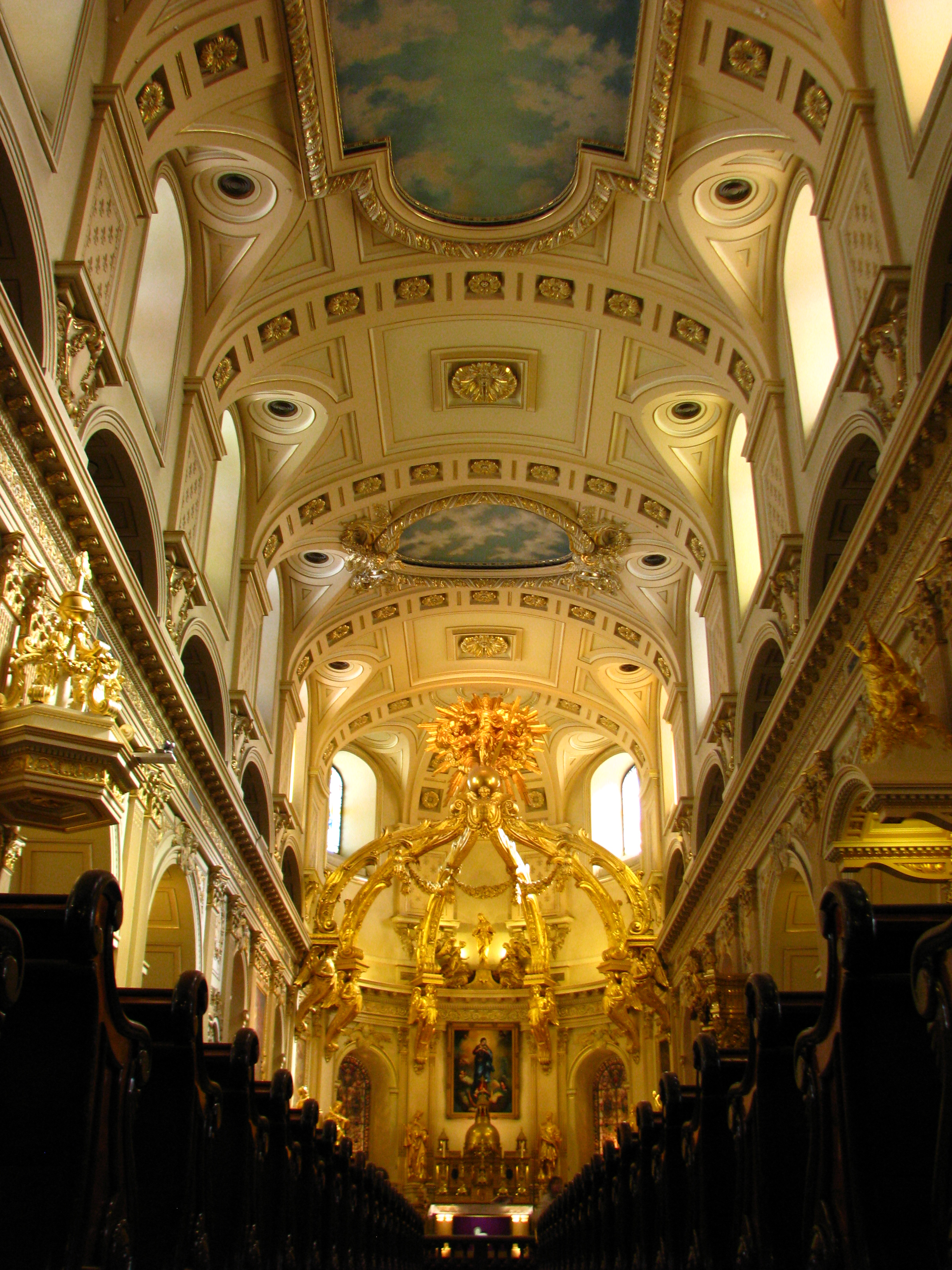 A view of Notre-Dame de Quebec's interior in Québec City, Canada.